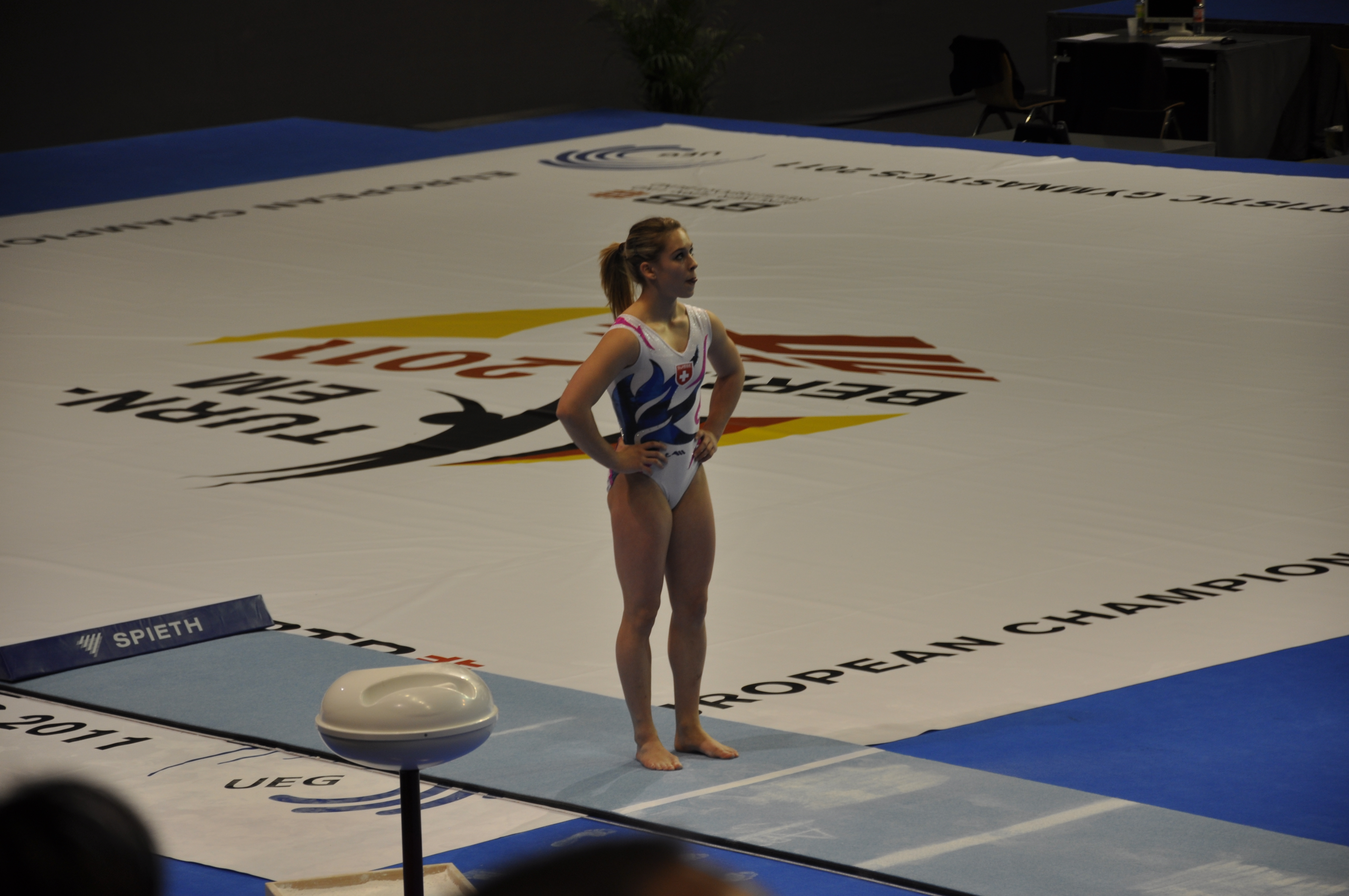 Guilia Steingruber before vaulting at the European Championships 2011 in Berlin